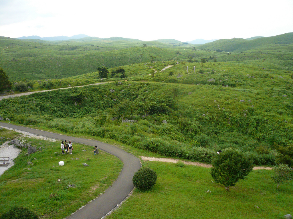 Akiyoshidai Quasi-National Park